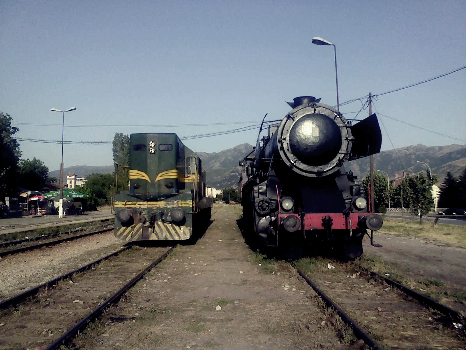 Prilep Train Station